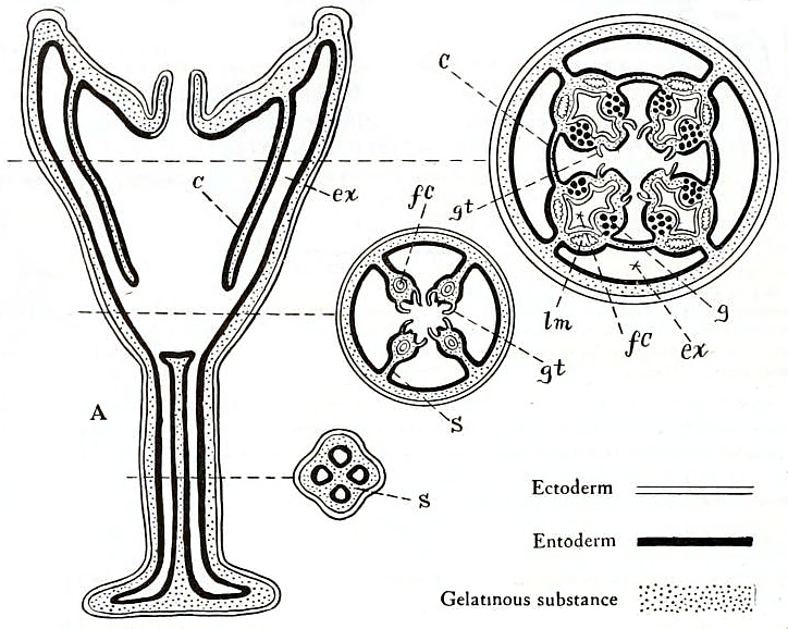 fig. 332a (upper part) Median longitudinal perradial sections and cross-sections of Stauromedusae. Somewhat diagrammic, after Gross. A. The internal anathomy of the Cleistocarpidae, illustrated as Craterlophus tethys. C, transverse partition spanning between gonads; ex, outer chamber, fc, funnel pits containing longitudinal nucleus; g, gonad; gt, gastric cirri; lm, longitudinal muscles; s, interradial septa.